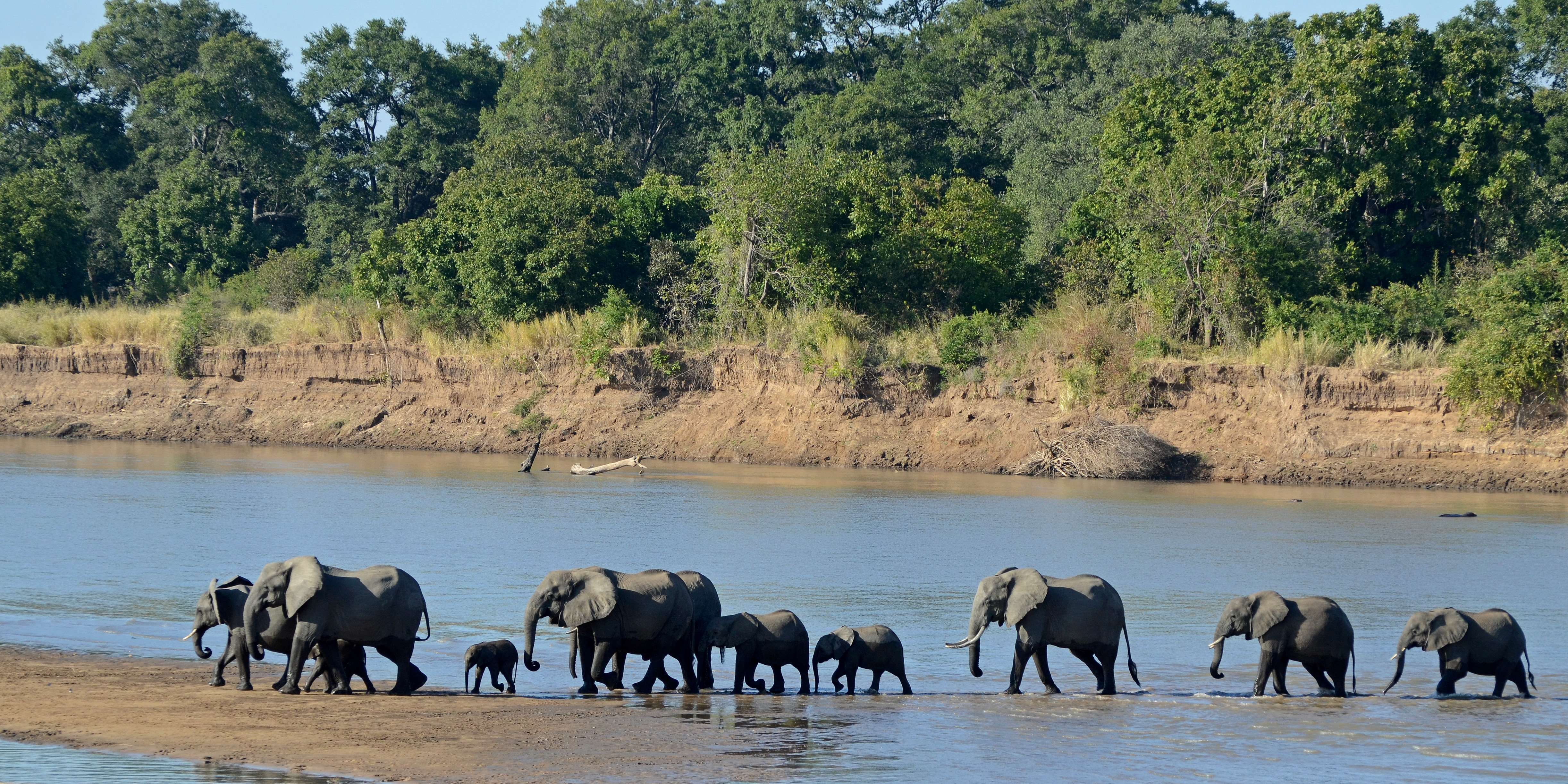 Elephants (Loxodonta_africana) crossing the Luangwa River, South Luangwa National Park, Zambia.